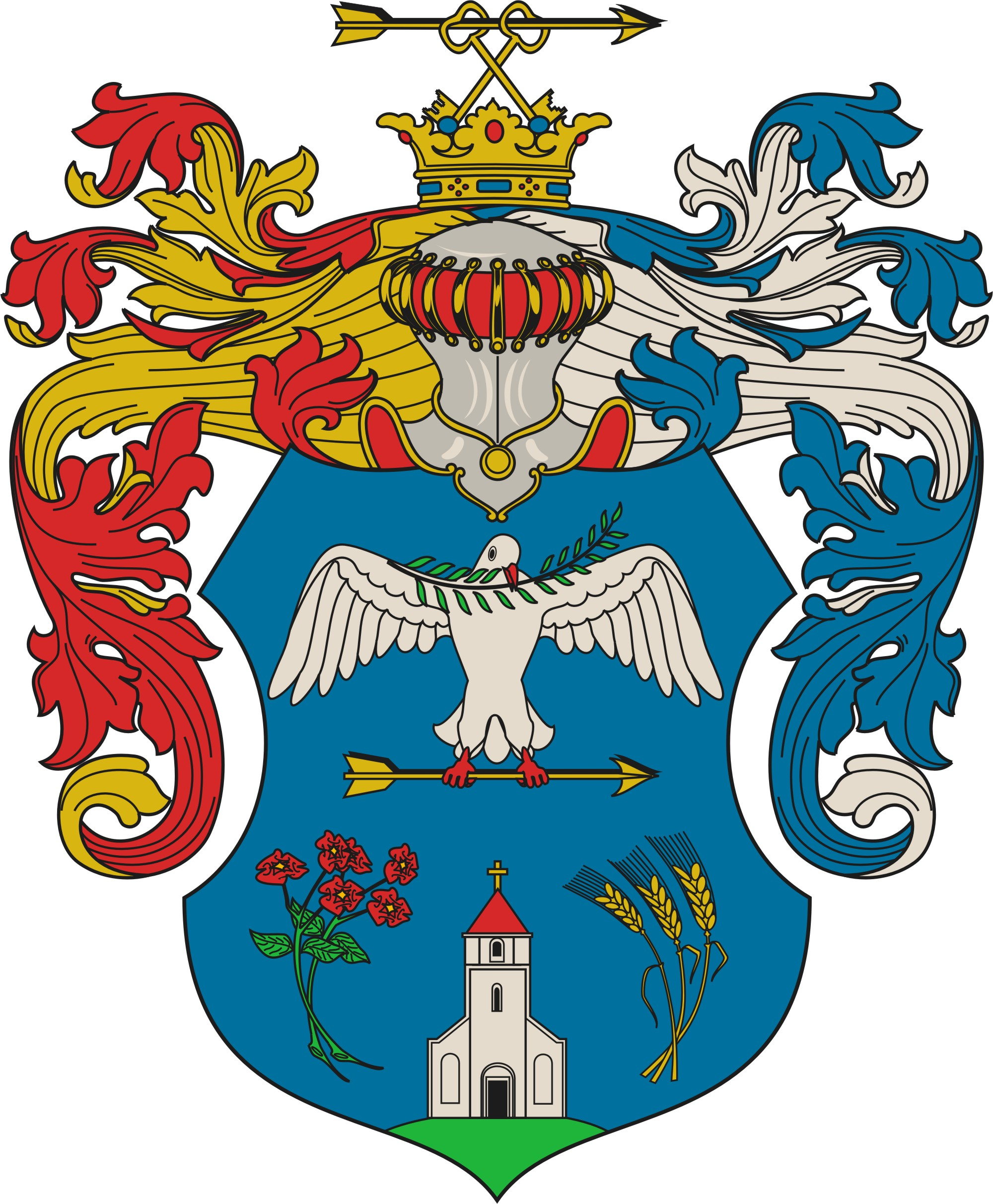 Coat of arms of Fábiánsebestyén, Hungary